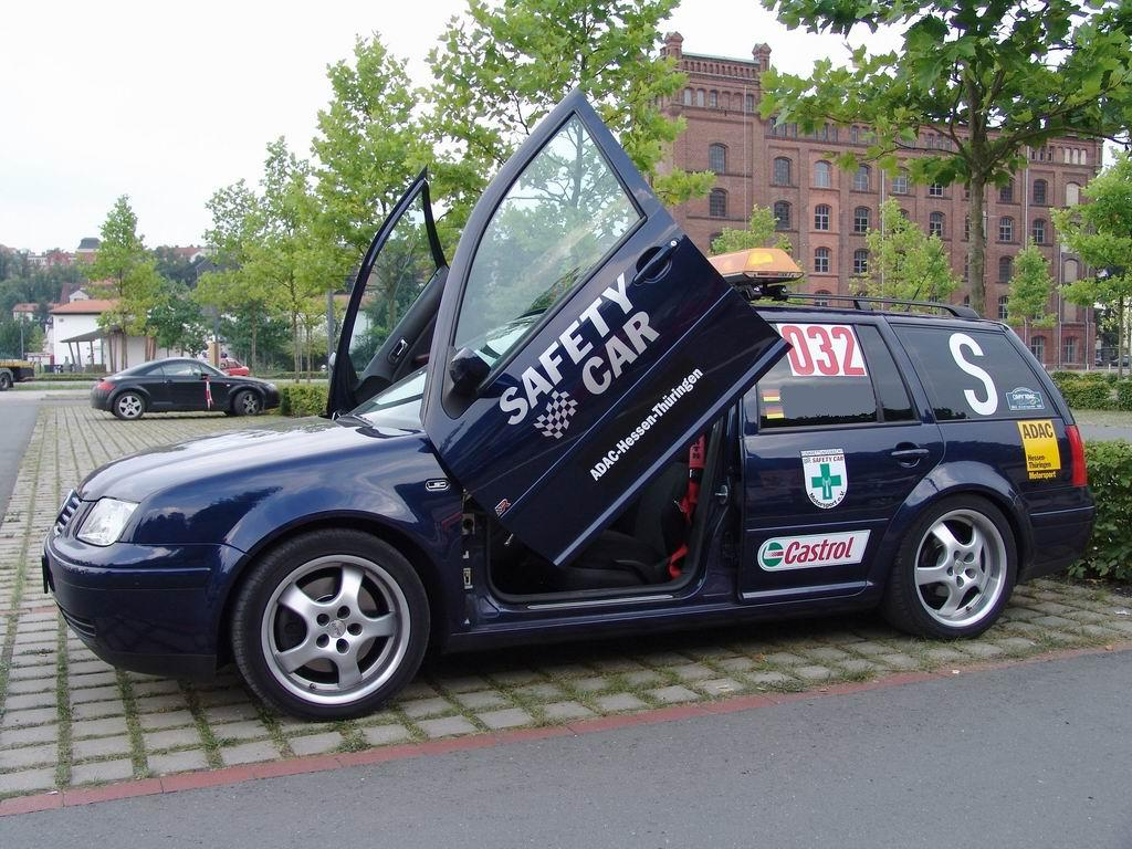 Rallye Safety Car